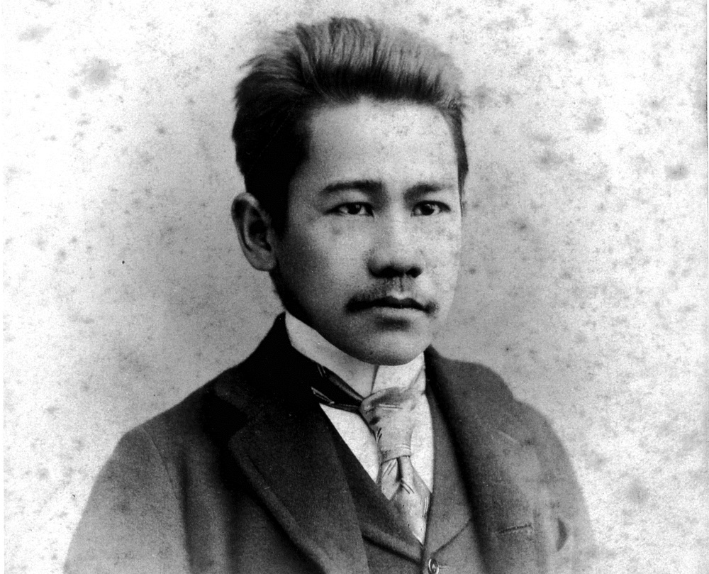 Chaophraya Phrasadet Surentharathibodi in suit and tie, probably during his time in England